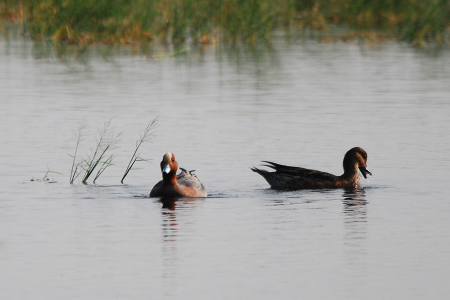 EurasianWigeon-Chembarambakkam